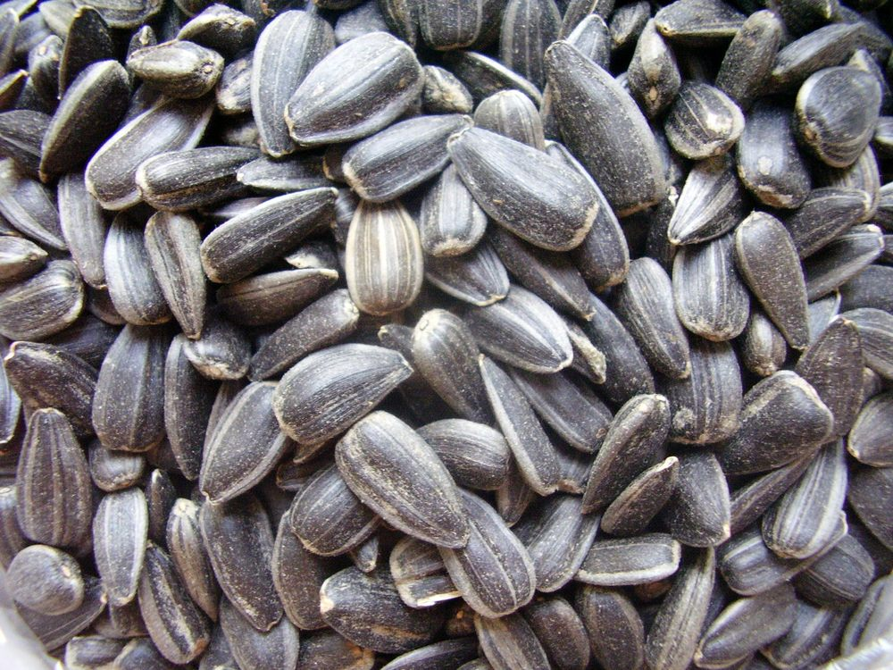 Sunflowers seeds